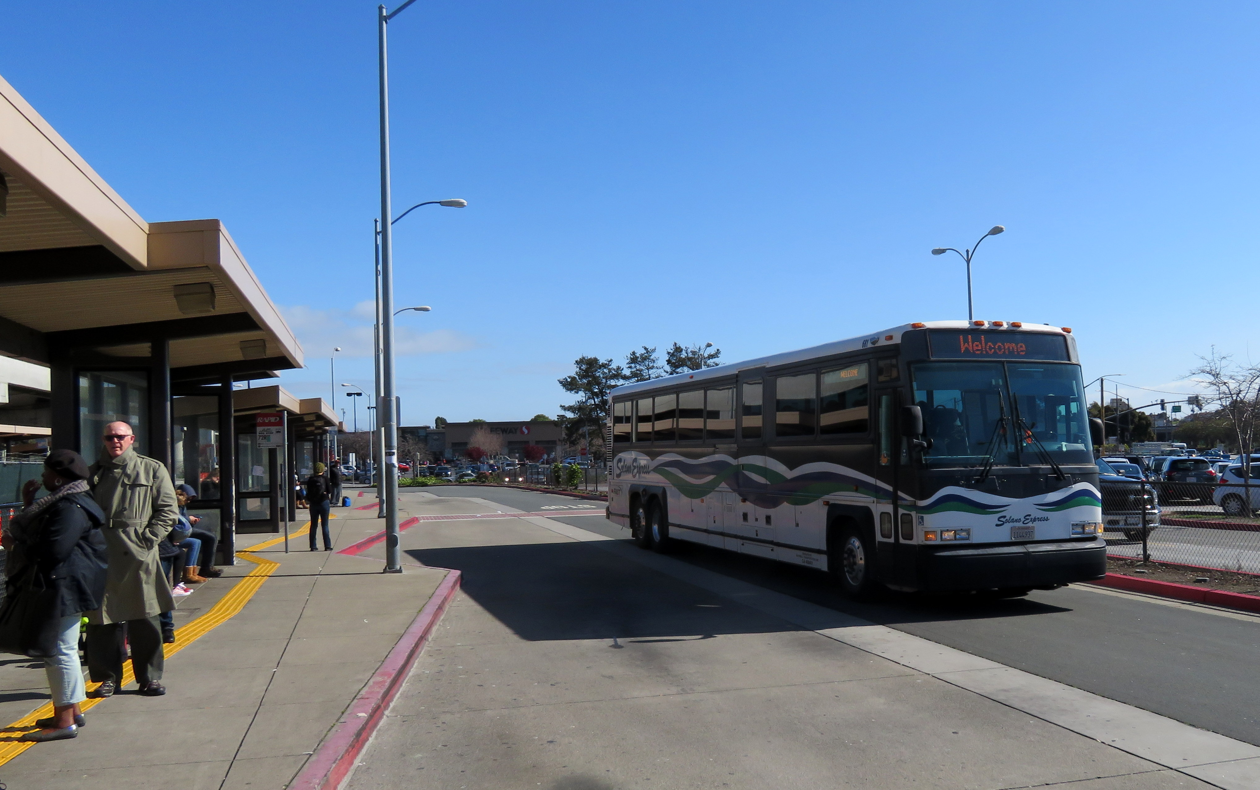 FaST SolanoExpress bus at El Cerrito del Norte station in March 2018